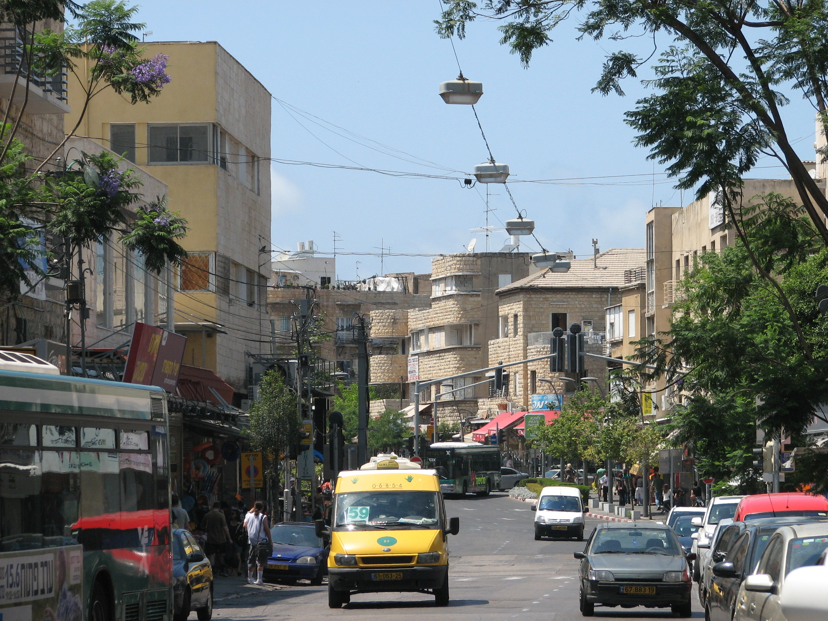 Hadar's main street as well as one of HFA's commerce and commuting hubs, Herzl Street, looking west.